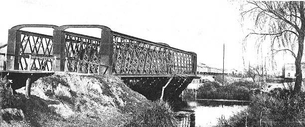 The first bridge that crossed the Riachuelo of Buenos Aires, built by the Buenos Aires Great Southern Railway. It was replaced in 1909.